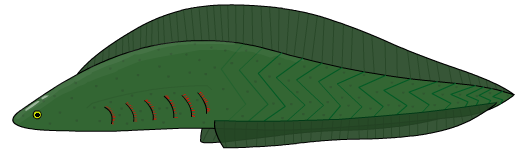 An illustration of the craniate Myllokunmingia.